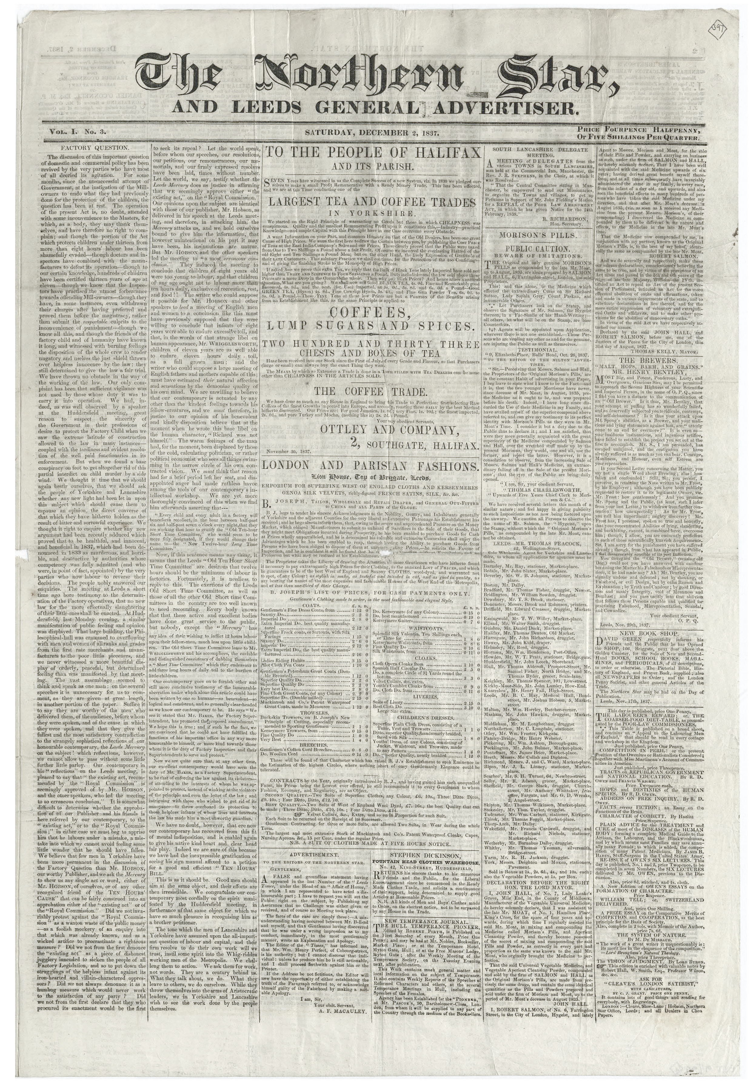 Front page of The Northern Star on 2 December 1837. Number: 3 Date: 2 December 1837 Number of Editions: 1 Price: 4 1/2d Size: 16 x 23"; 41 x 59cm Page Span: 8